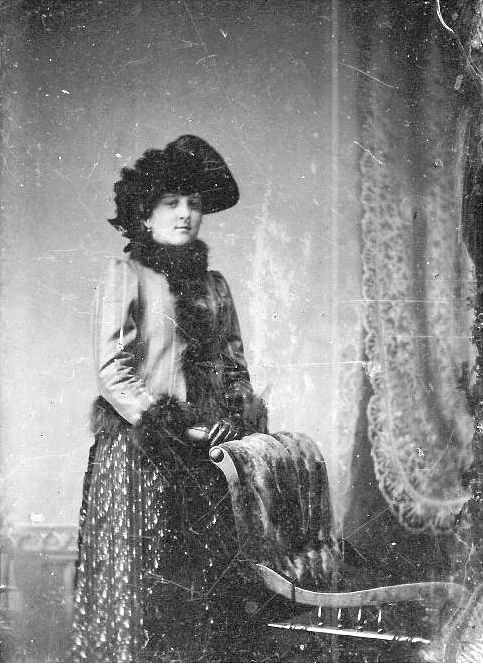 Josephine Marcus was the common-law wife of Wyatt Earp. This photo was taken in Prescott, Arizona Territory, in 1880, and is believed to be of a young Josephine.